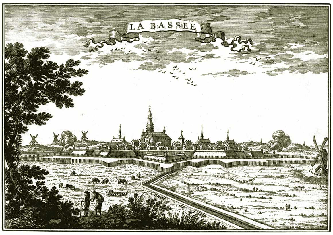 Old map of la bassée, north of France, with wetlands